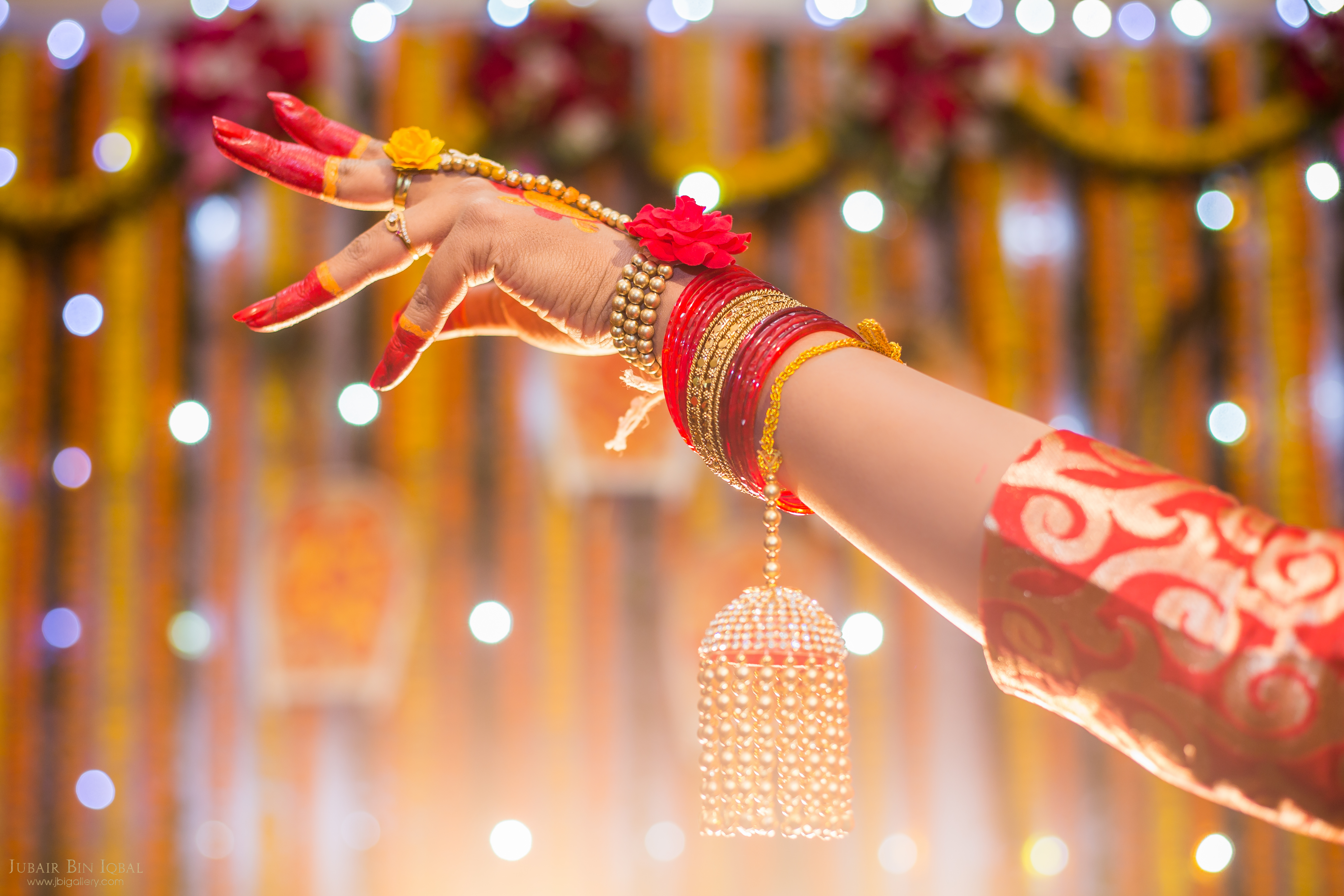 Hand of Bride in the Turmeric ceremony